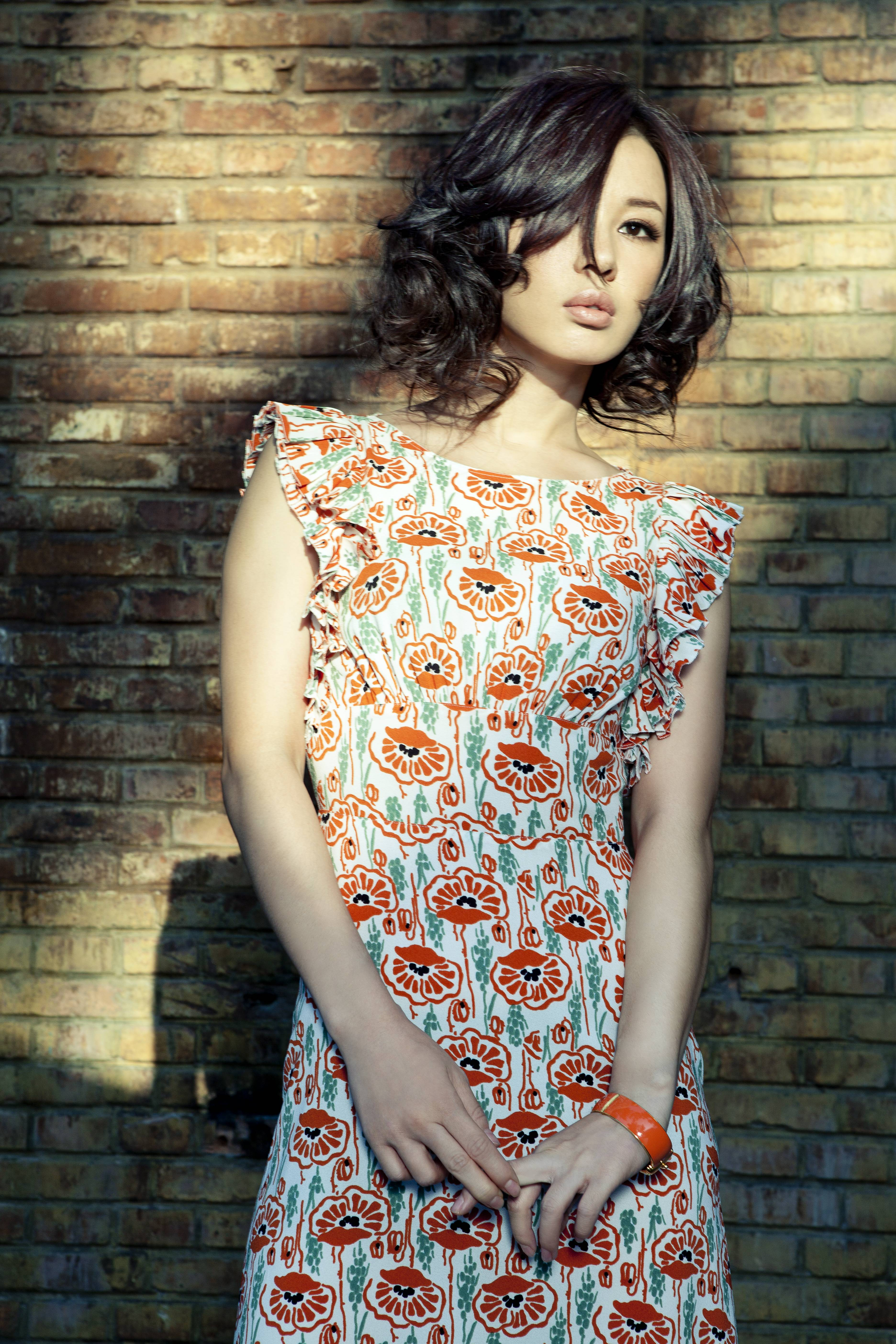 Yu Nan Picture; converted into jpg